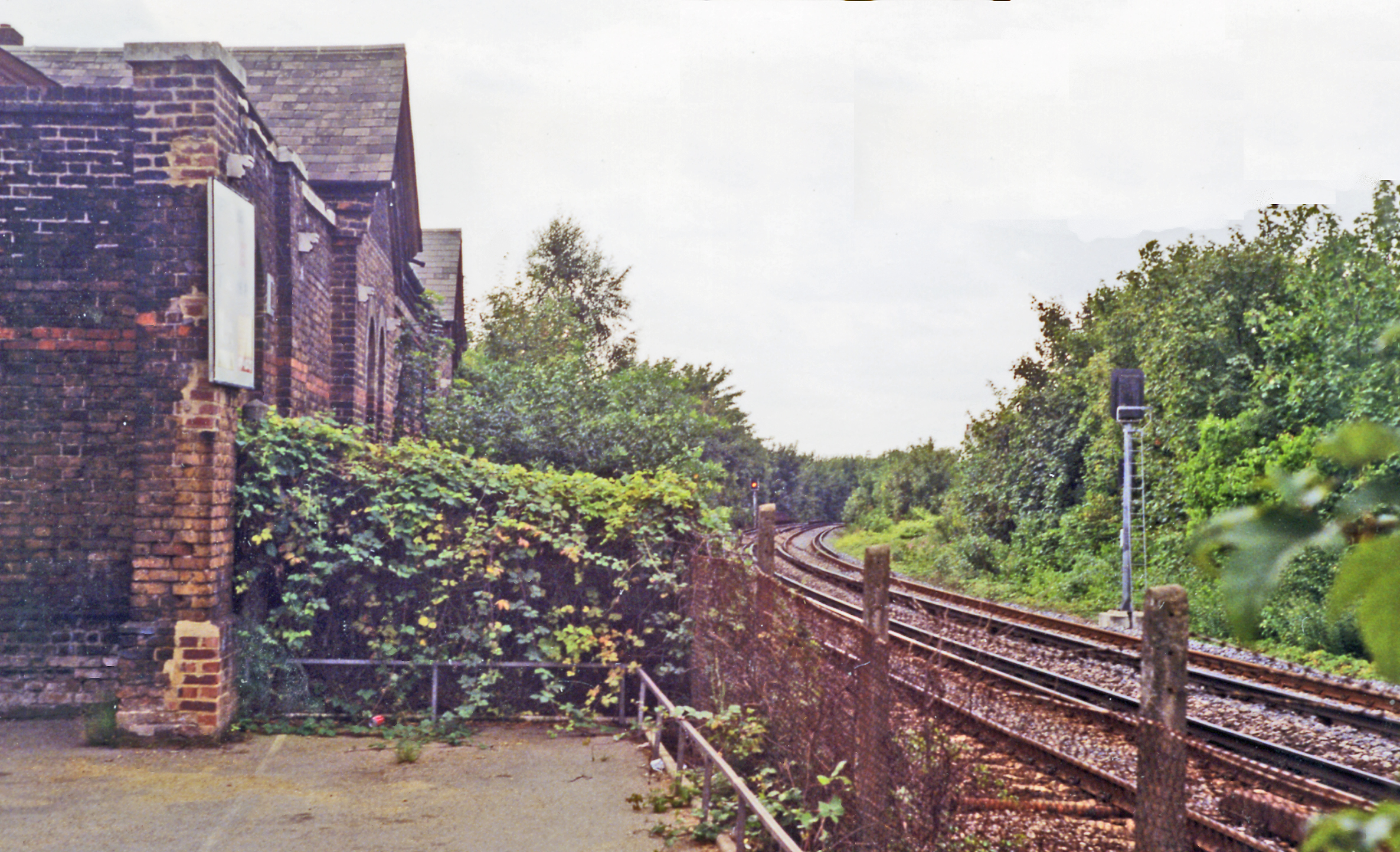 Site of Epsom Town station. View westward from behind Upper High Street, toward the present (ex-LSWR) station: ex-LB&SCR lines from Victoria and London Bridge via West Croydon and Sutton, which round the bend joined the ex-LSWR line from Waterloo, running then as a Joint line to Leatherhead etc